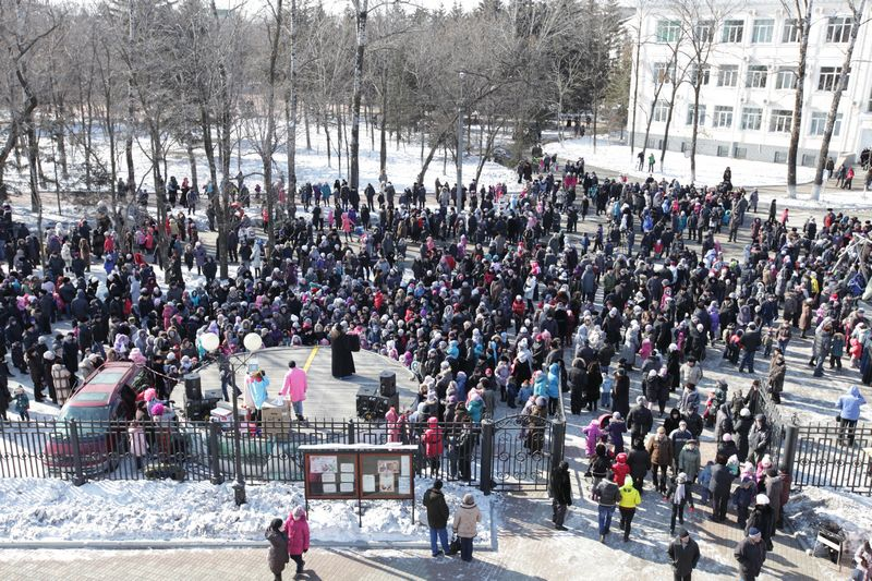 Children's fete 'Great Maslenitsa'